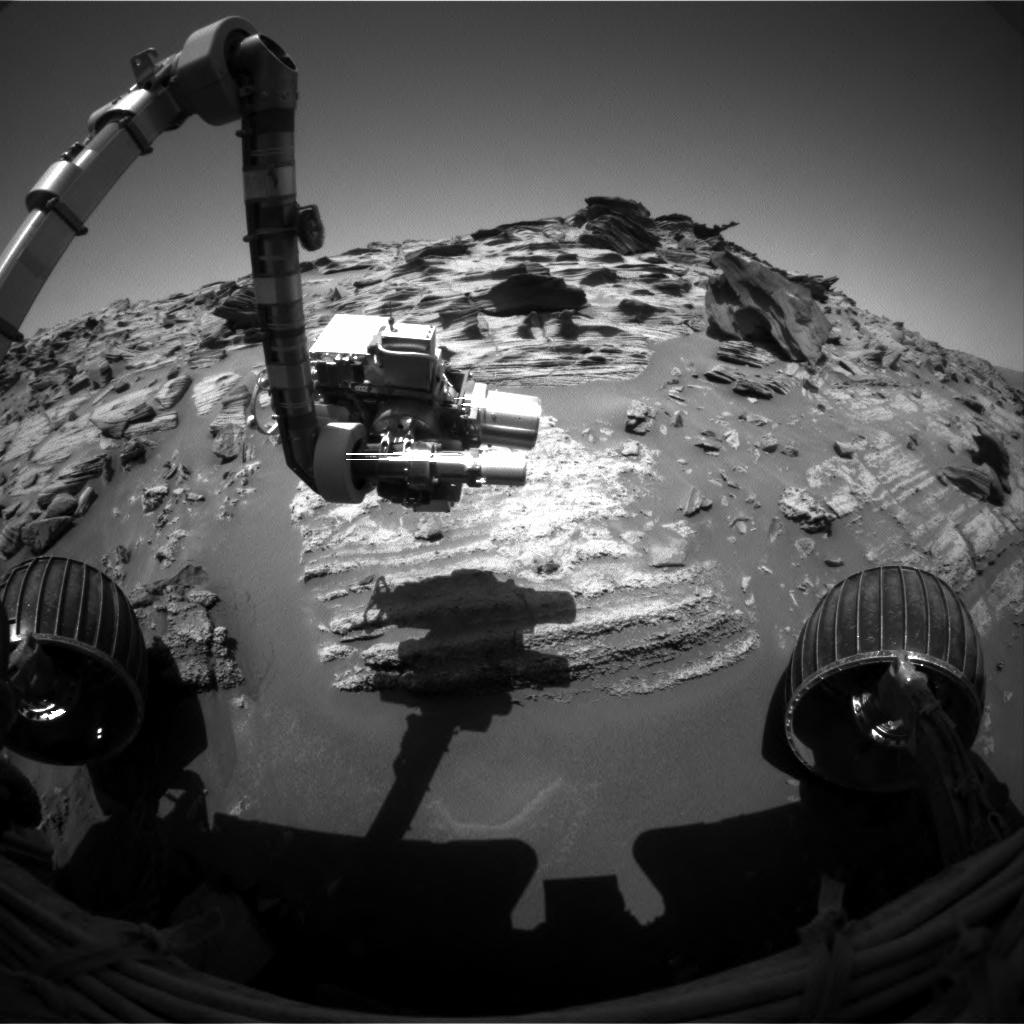 'Home Plate', a feature studied by the Spirit rover on Mars.